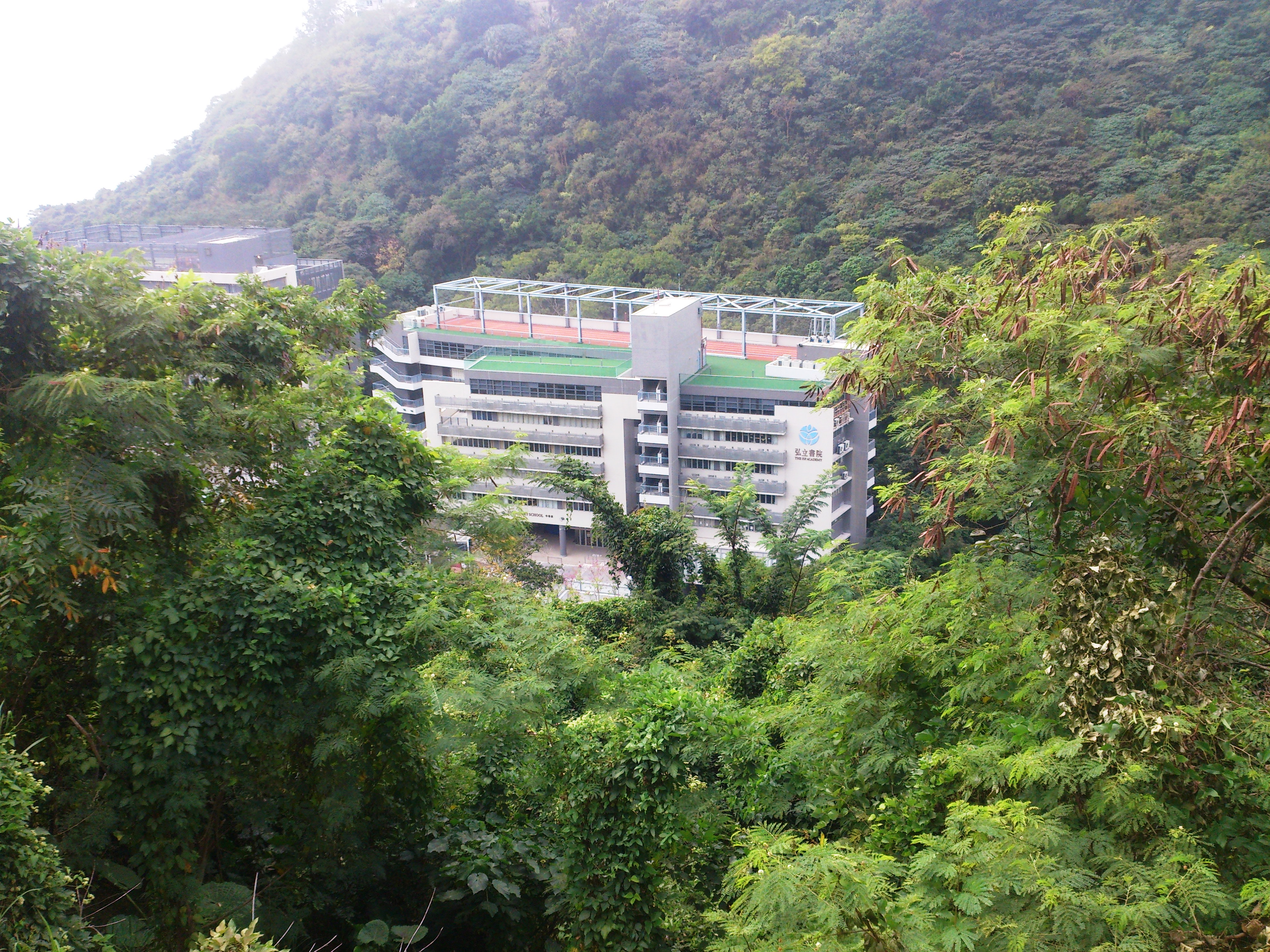 Far view of ISF Academy